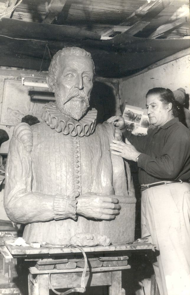 Ferrino creating Cervantes